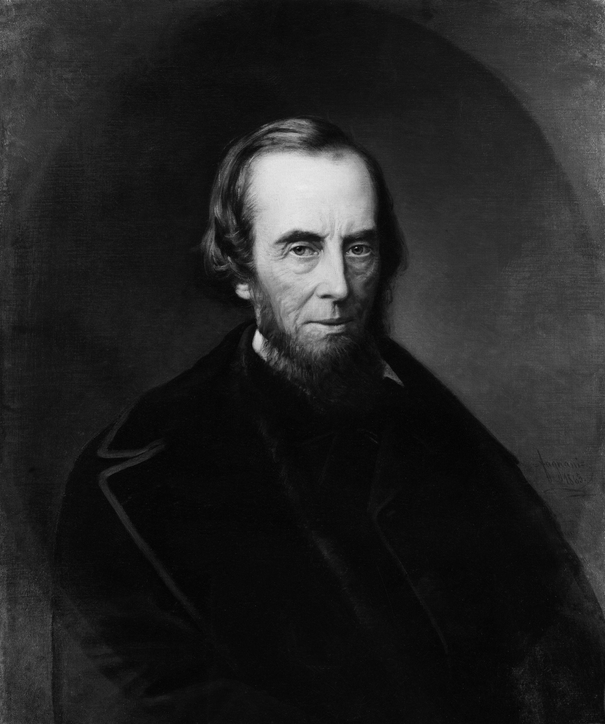 William Bulwer, Baron Dalling and Bulwer, by Giuseppe Fagnani (died 1873), given to the National Portrait Gallery, London in 1891. All images in this batch have been confirmed as author died before 1939 according to the official death date listed by the NPG.